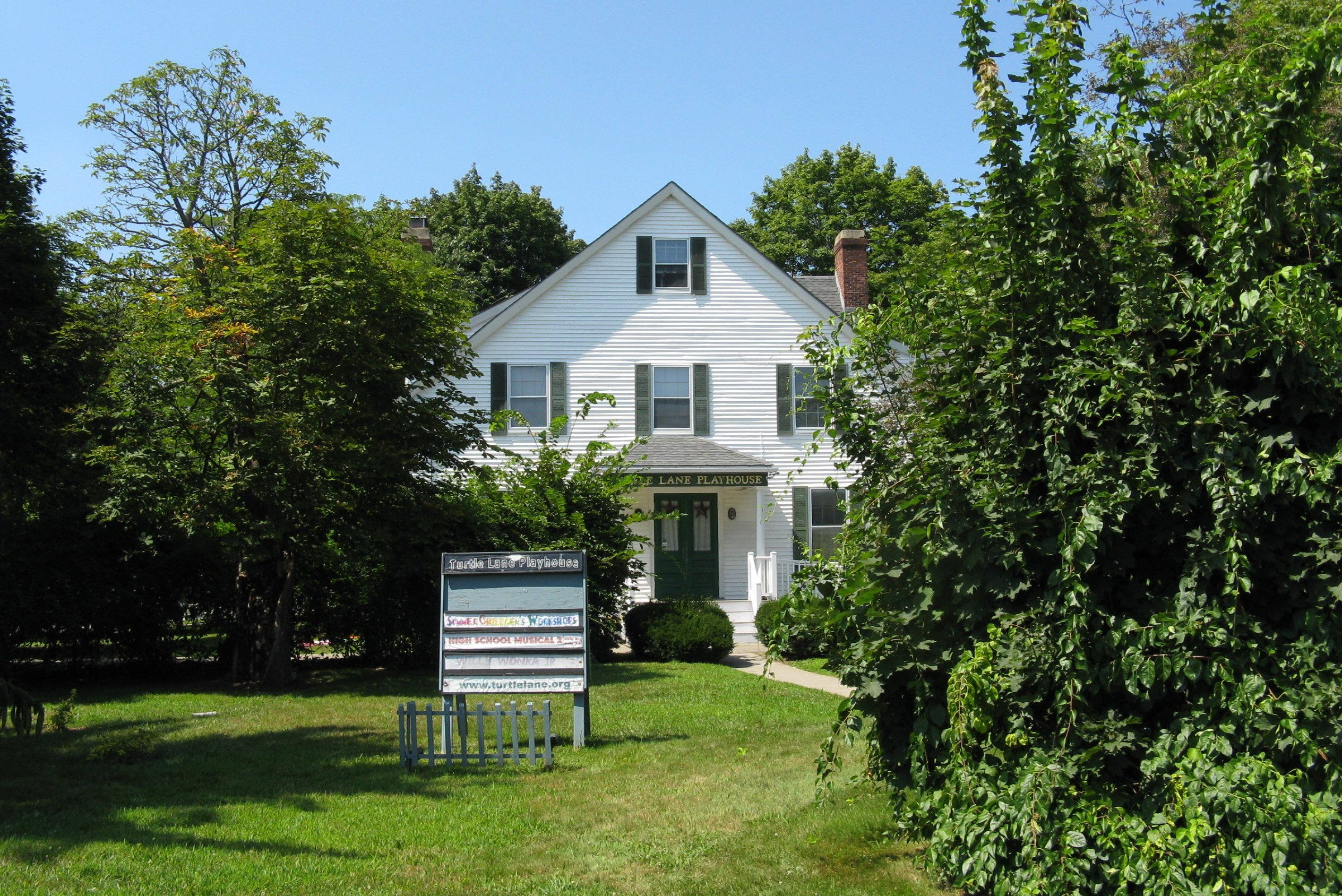 Turtle Lane Playhouse, Auburndale, Newton Massachusetts